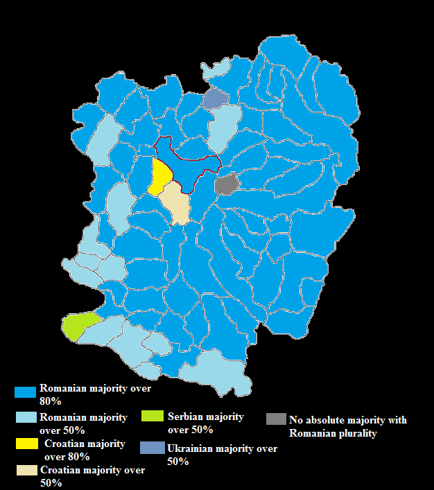 Ethnic map of Caraș-Severin County, based on the 2011 census.